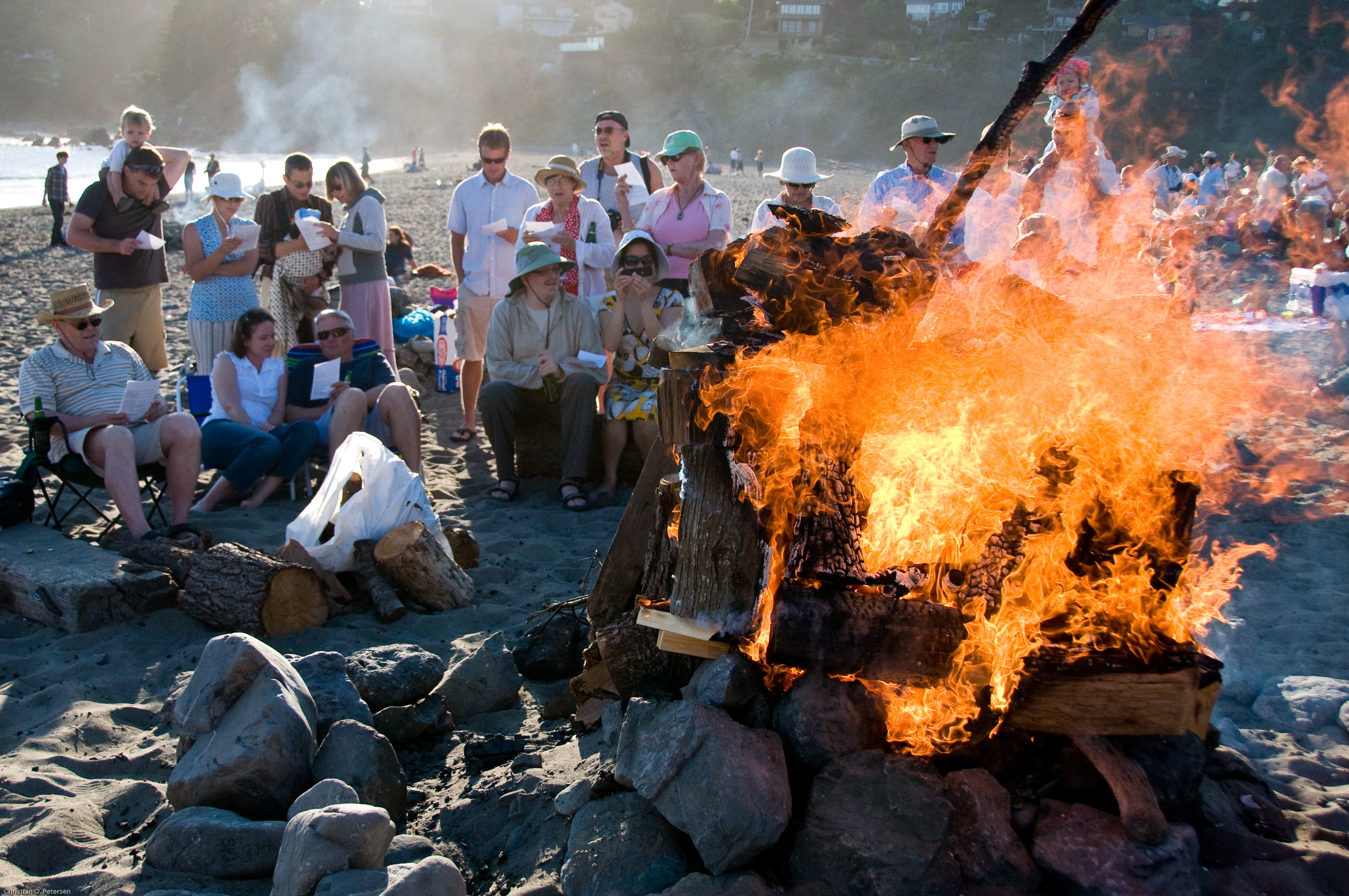 Danes celebrating Midsummer by singing midsommervisen (Midsummer hymn) called "Vi elsker vort land..." ("We Love Our Country") that is sung at every bonfire on Sankt Hans often ("St. John's Eve")